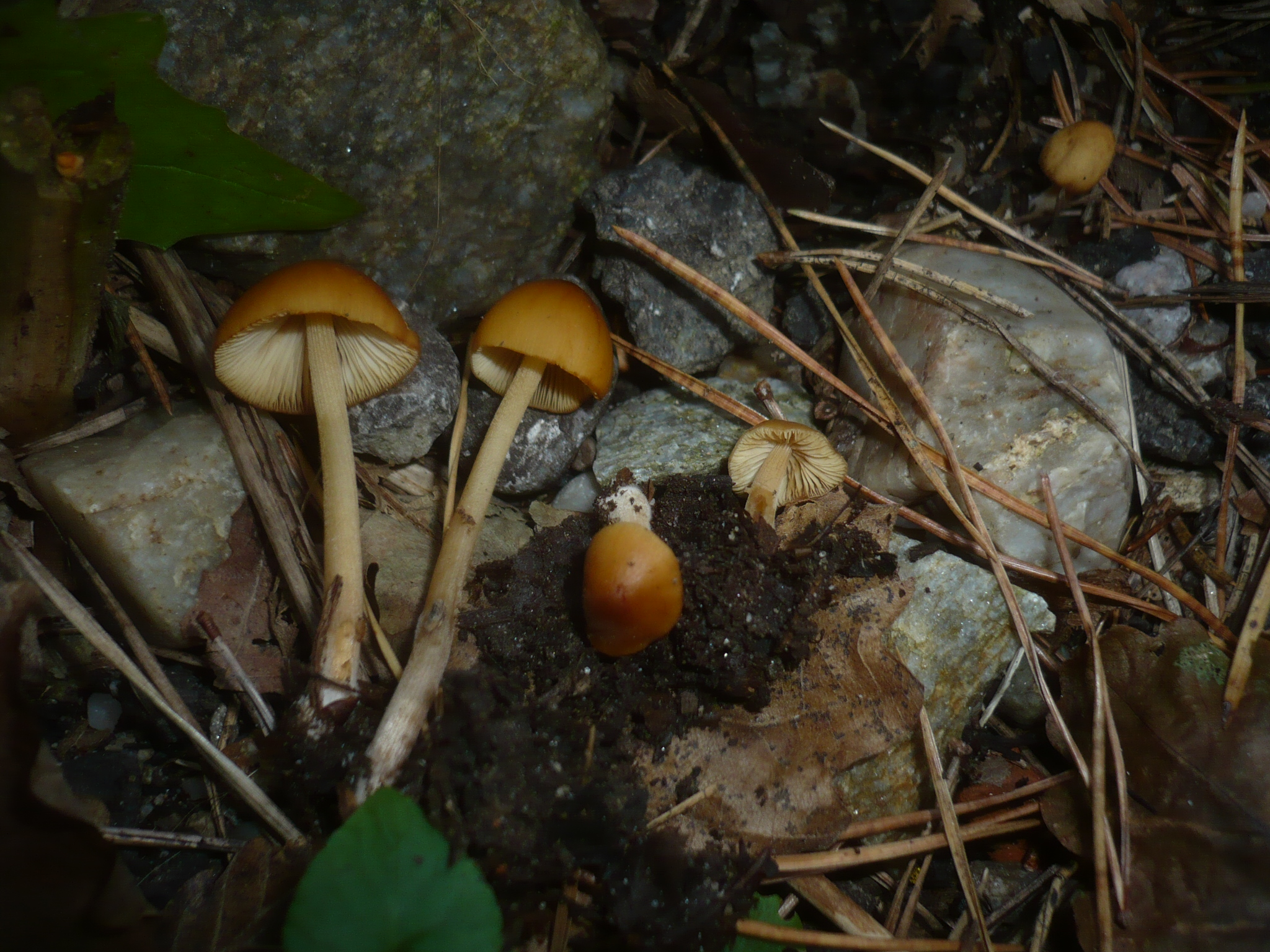 Conocybe subovalis Kuehner & Watling Image location: Mitterriegel, Marz, Bezirk Mattersburg, Burgenland, Austria Recognized by sight Used references Based on microscopic features For more information about this, see the observation page at Mushroom Observer.